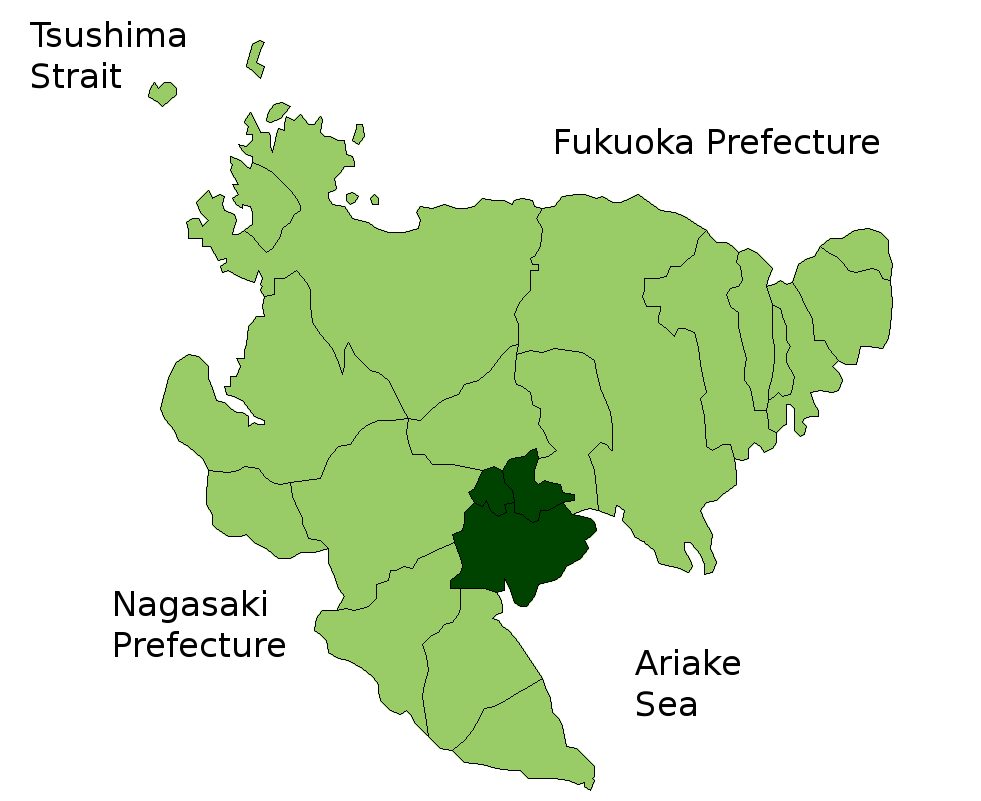 Location Map of Kishima District in Saga Prefecture, Japan